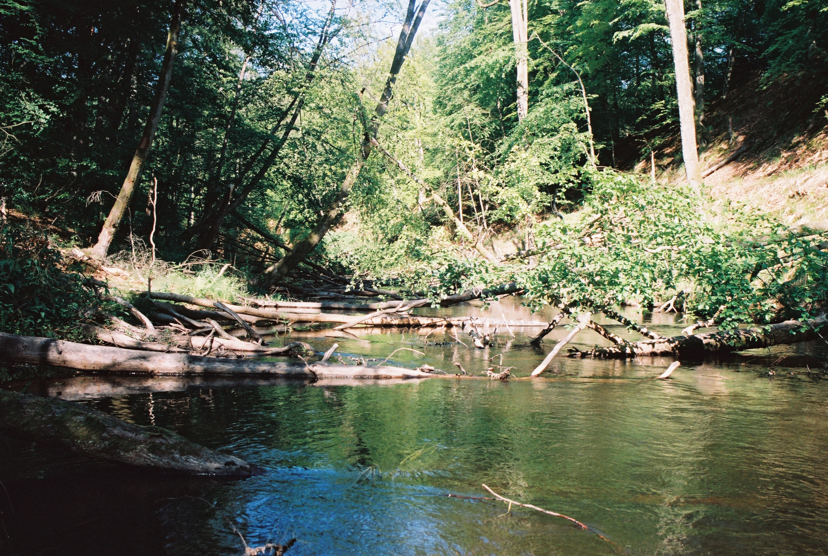 River Brda near Przechlewo in the nature reserve "Przytoń"